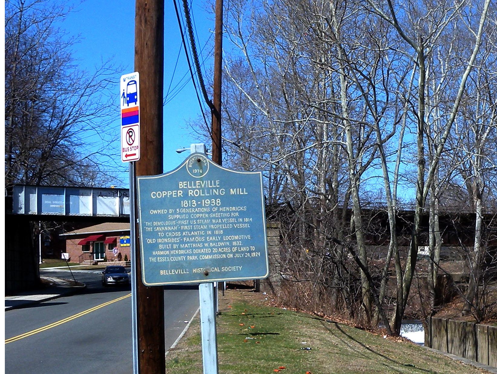 Looking west along Mill Street at historic sign for Belleville Copper Rolling Mill on a sunny midday; mill pond and railroad (former New York and Greenwood Lake Railway (1878–1943)) in background.